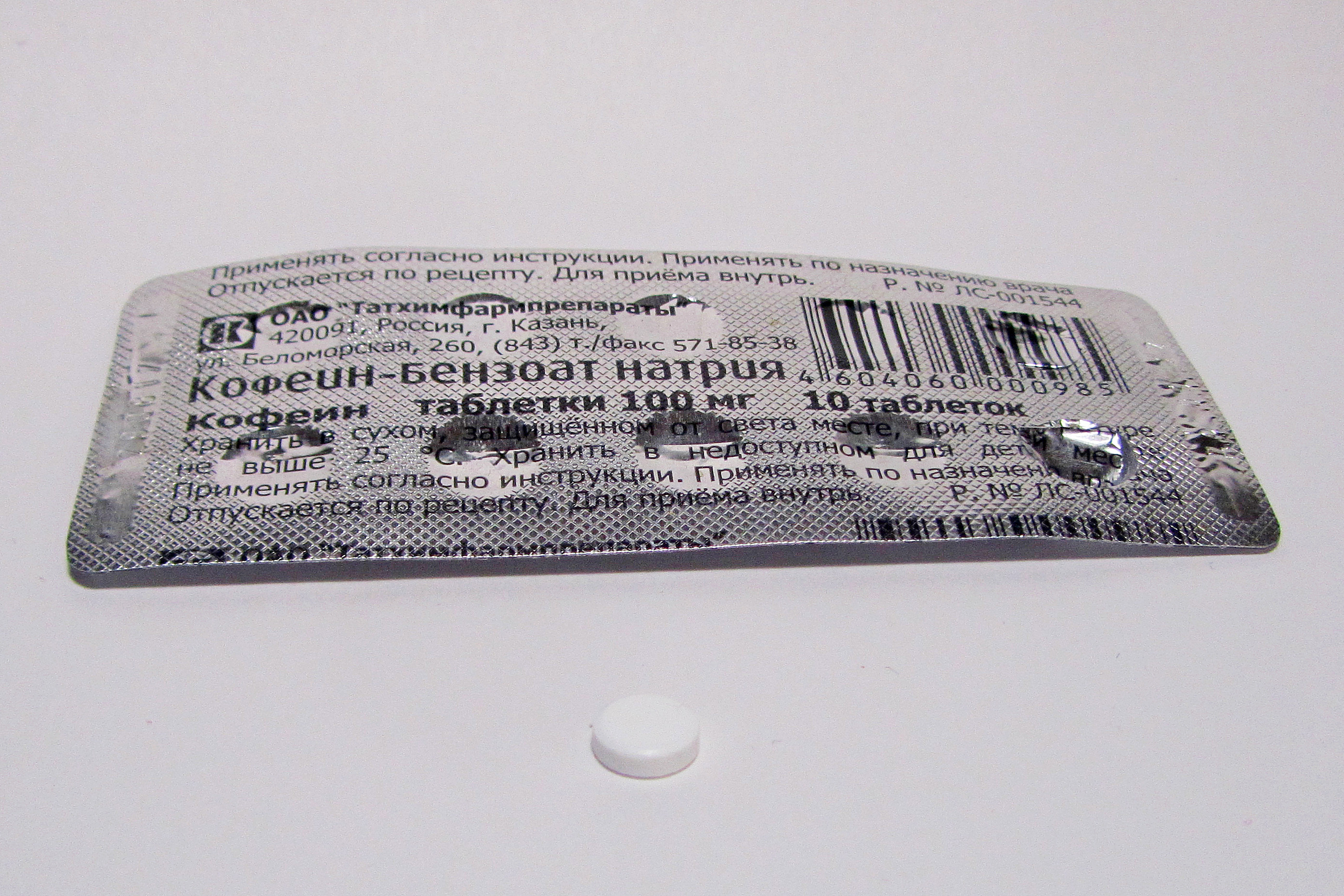 Pills. Caffeine - Sodium benzoate. Photo by Alexey Schekinov.